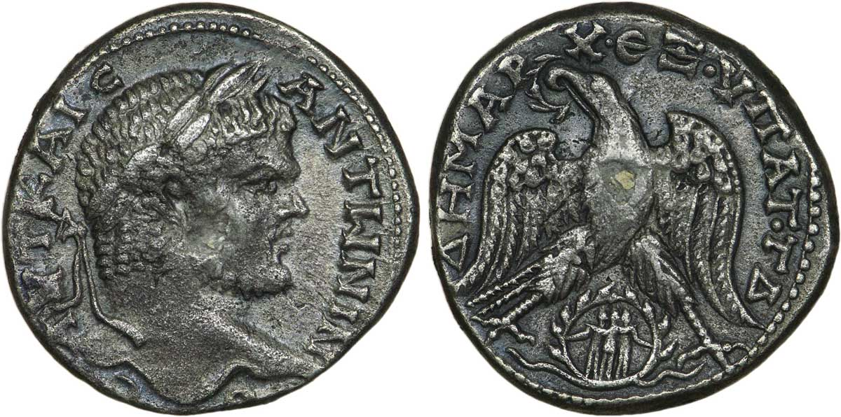 Monnaie frappée en la cité de Gadara